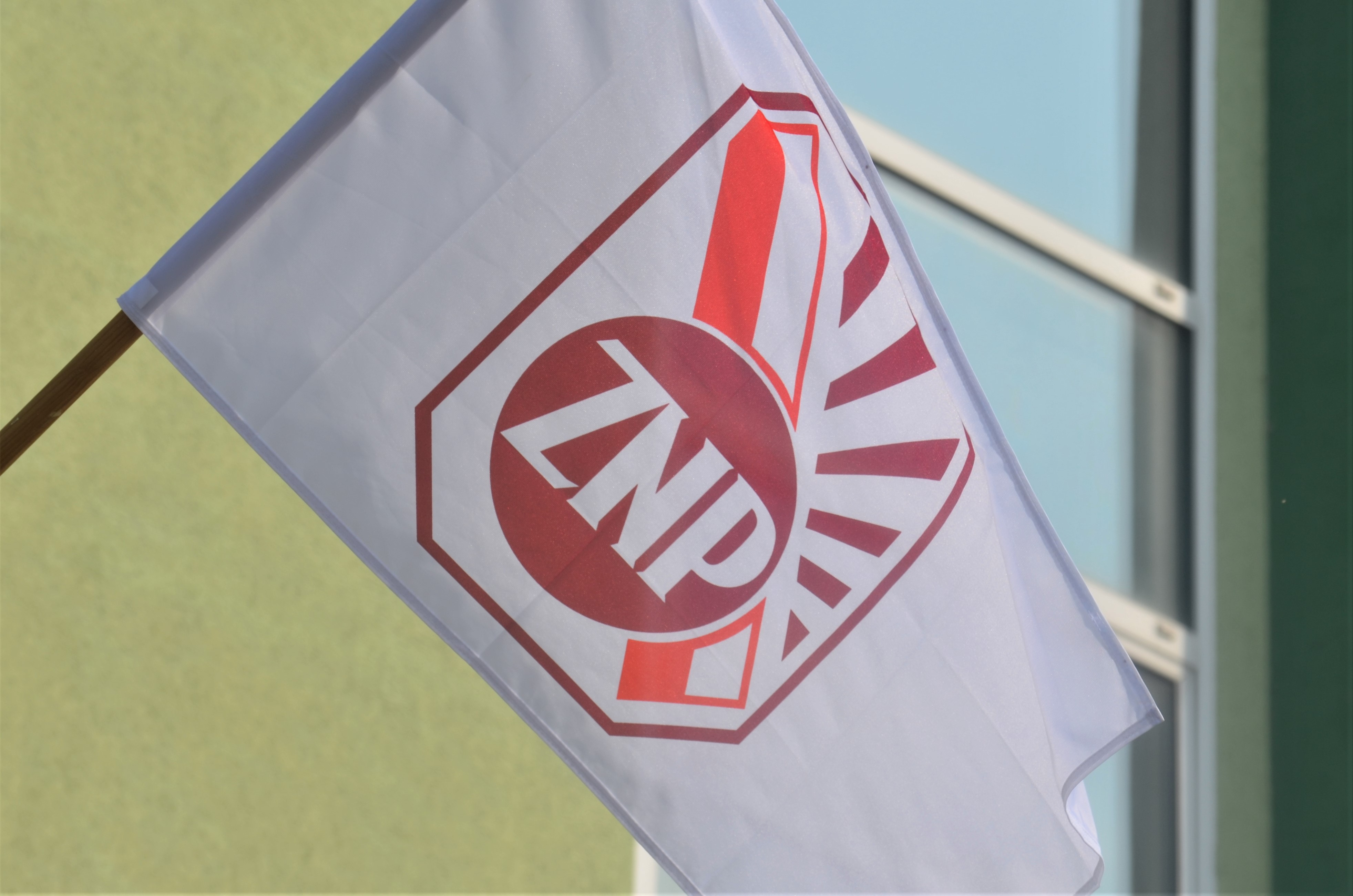 Związek Nauczycielstwa Polskiego